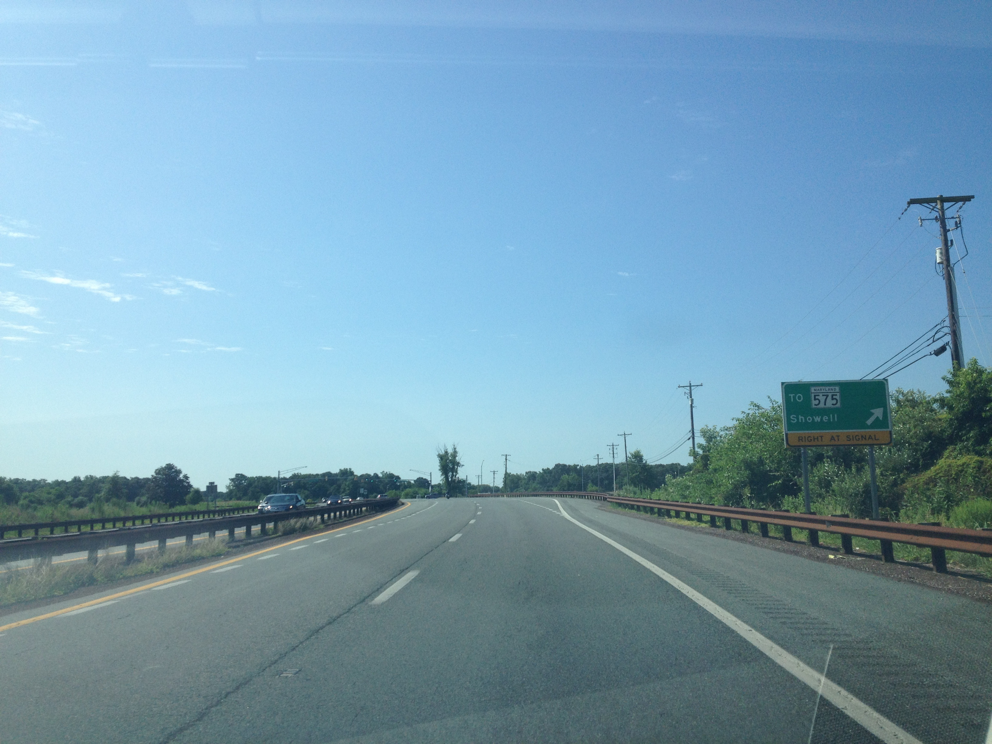 Southbound U.S. Route 113 (Worcester Highway) approaching the intersection with Shingle Landing Road/Peerless Road, which leads to a section of Maryland Route 575 that runs through Showell, Maryland.